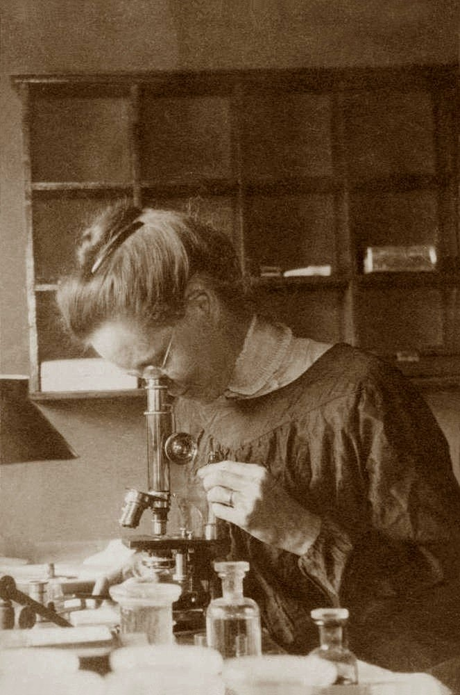 Nettie Stevens at work at the Naples Zoological Station in 1909.